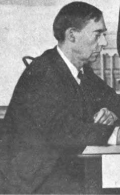 Photo of Amos Burn